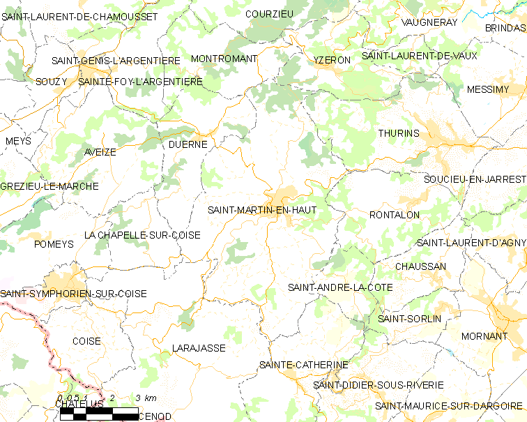 Map of French municipality